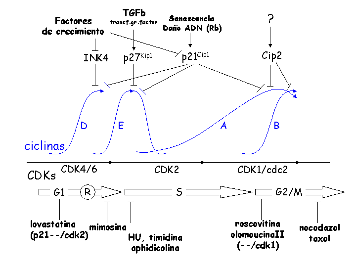 Scheme showing the variations in the levels of cyclins and CDKs along the cell cycle, as well as different inhibitors.